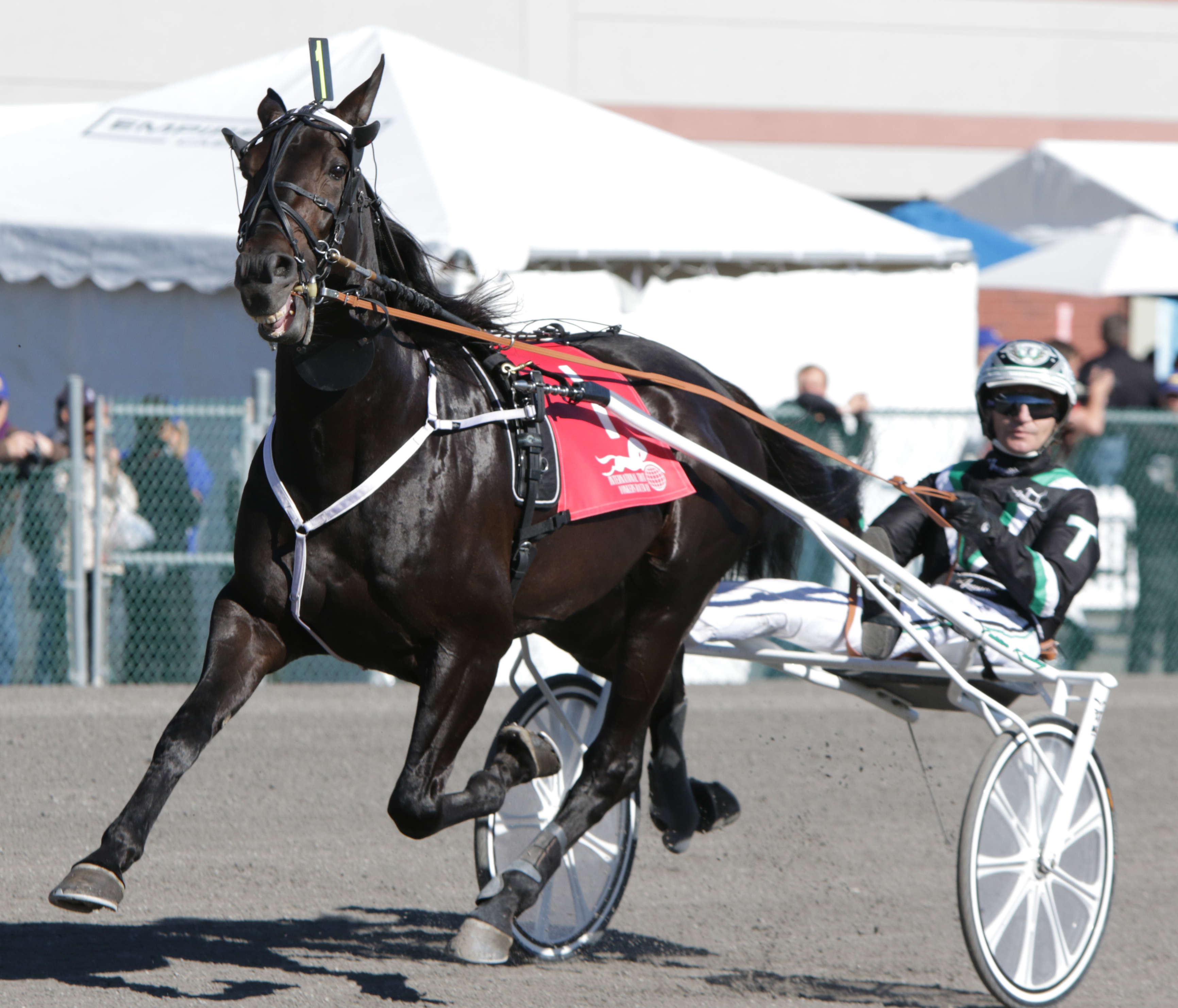 warming up withe Swedsh driver Jonny Takter before the 2015 $1,000,000 International Trot at Yonkers Raceway in New York